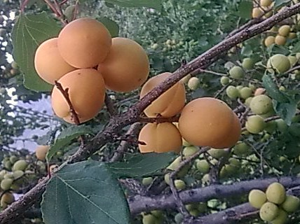 Ripened apricot fruit (Prunus armeniaca). Photo taken at Silpi village, Punial valley, district Ghizer, Gilgit Baltistan, Pakistan